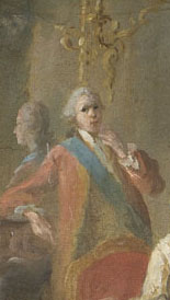 Detail of Louis Alexandre, Prince of Lamballe from a portrait by Jean-Baptiste Charpentier in circa 1767 held at Sceaux